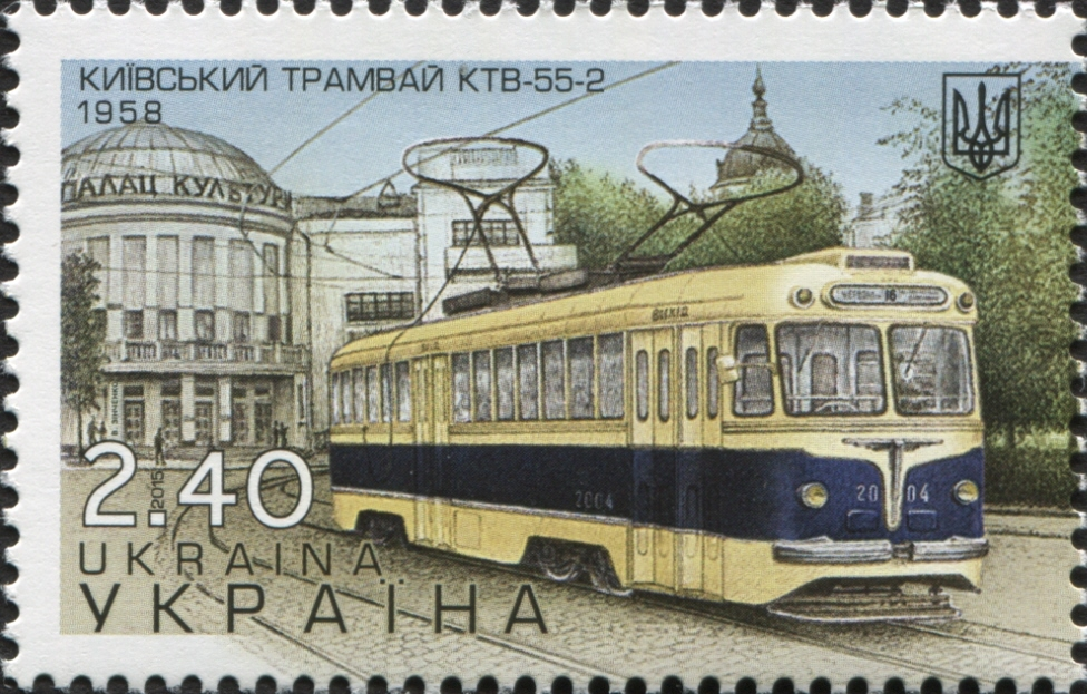 Stamps of Ukraine, 2015